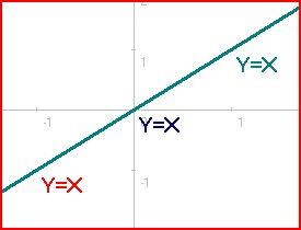 pic for article of mine